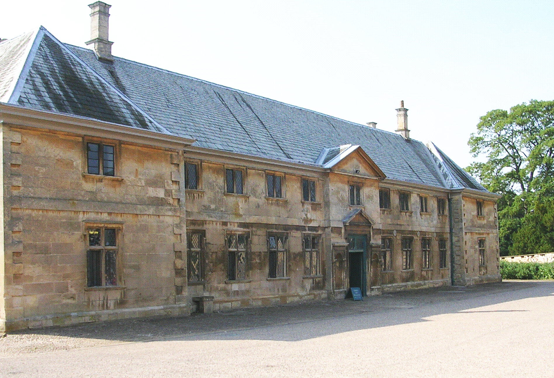 Stables at Belton House. England.